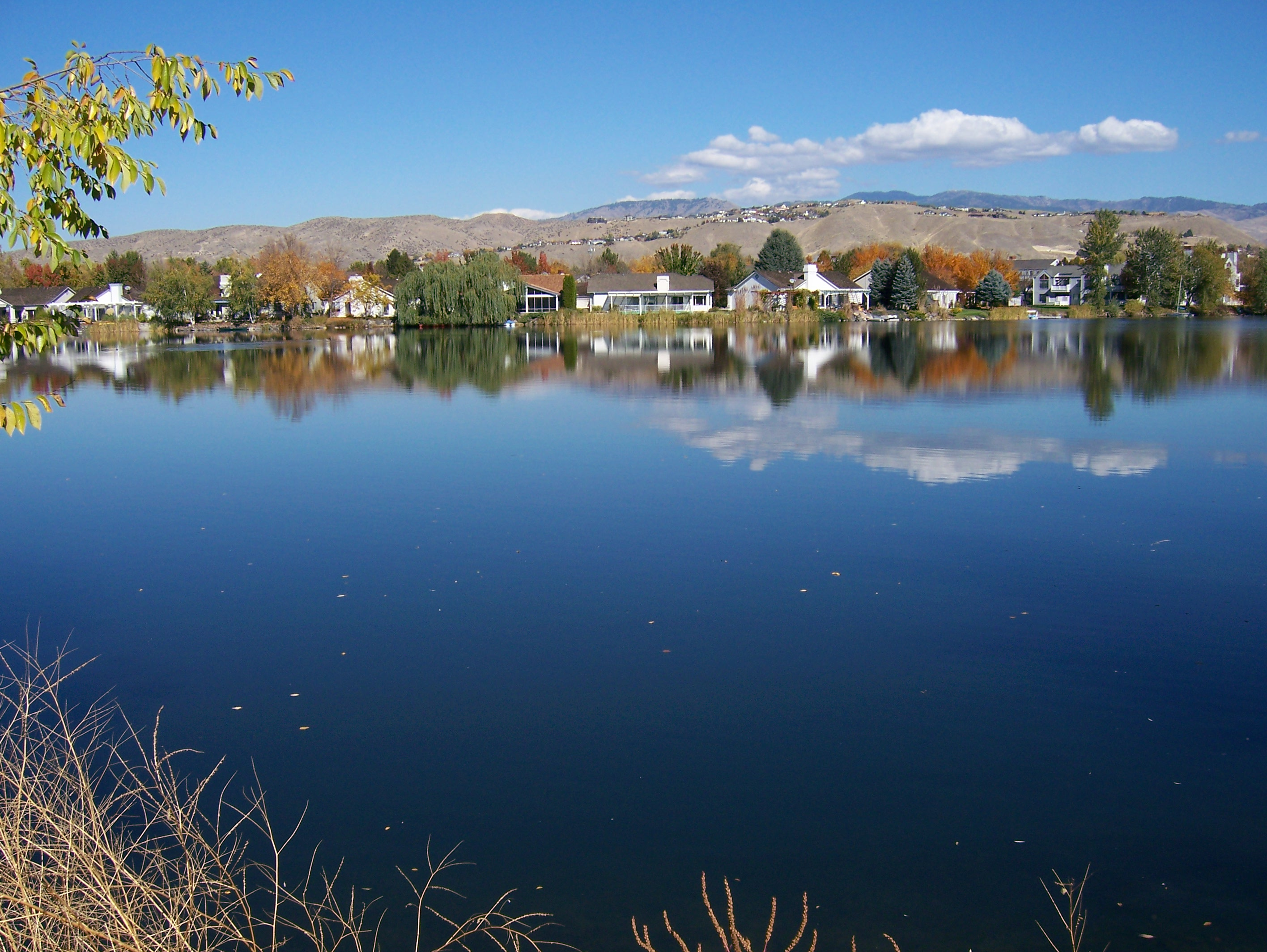 Lake Harbor in Northwest Boise